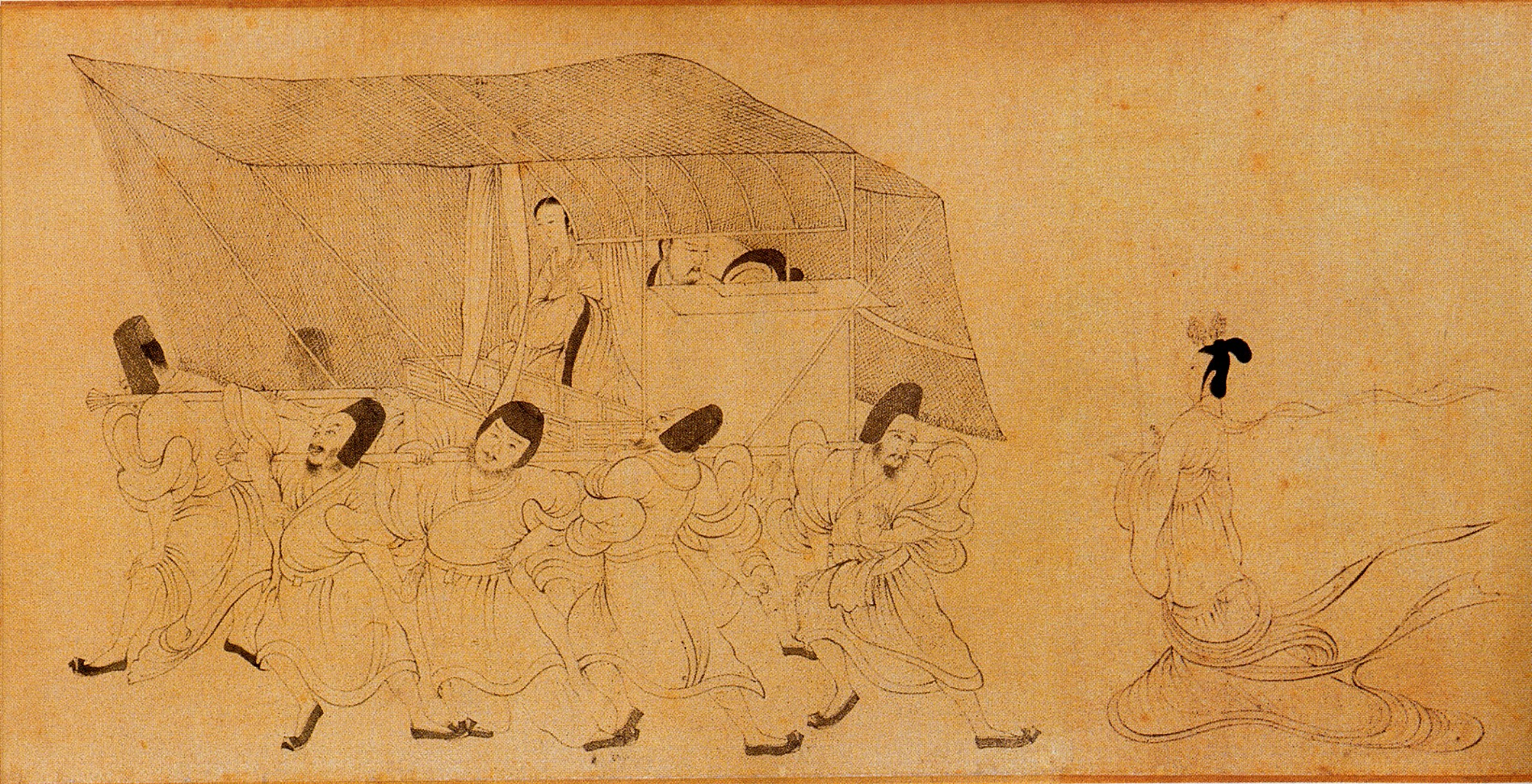 Scene 5 (Lady Ban refuses to ride in the imperial litter) of the Song Dynasty Palace Museum copy of the "Admonitions Scroll", attributed to Gu Kaizhi